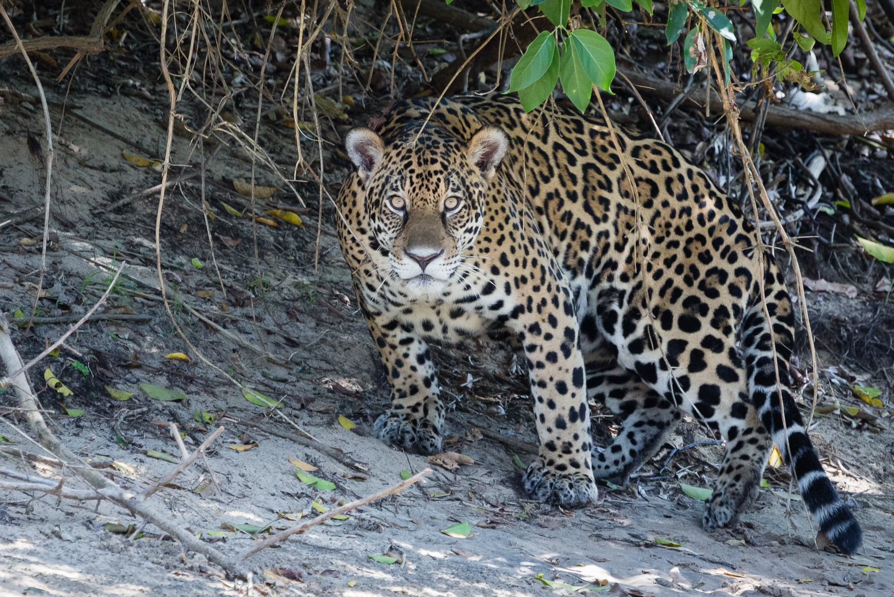 A jaguar (Panthera onca) in Pantanal, Miranda, Mato Grosso do Sul, Brazil.